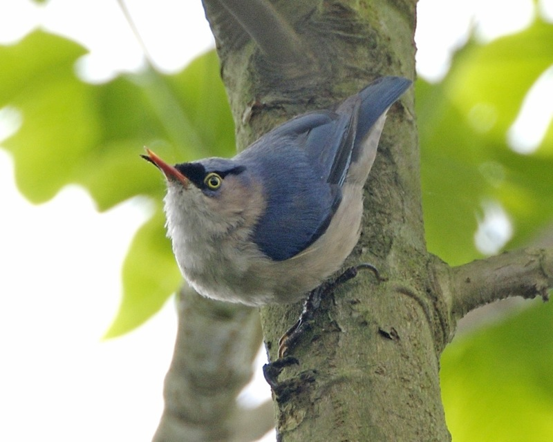 Velvet-fronted Nuthatch (Sitta frontalis) in Kazaringa, Assam, India on 15 April 2008.